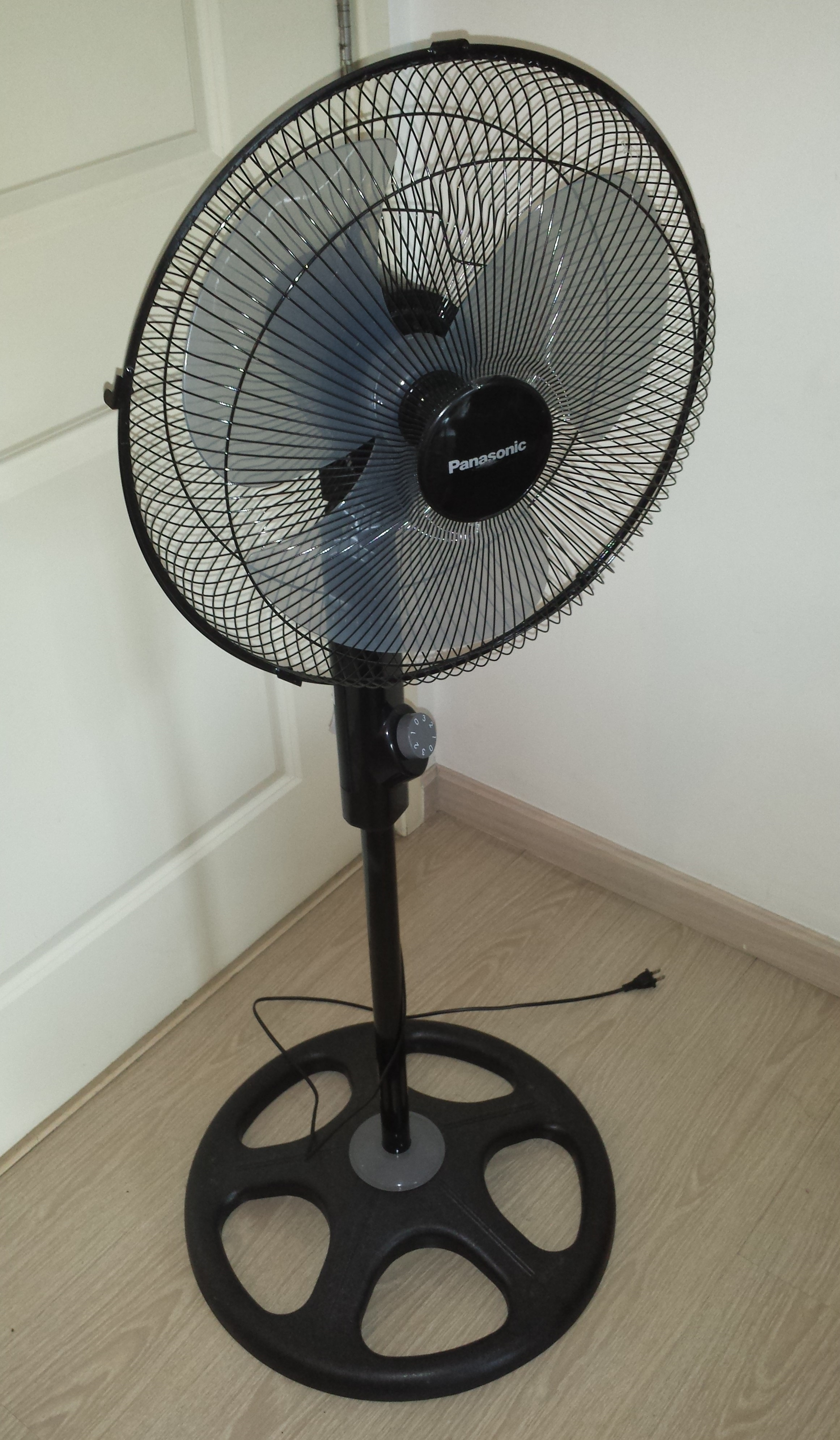 A Panasonic F-40LEP-RB floor fan